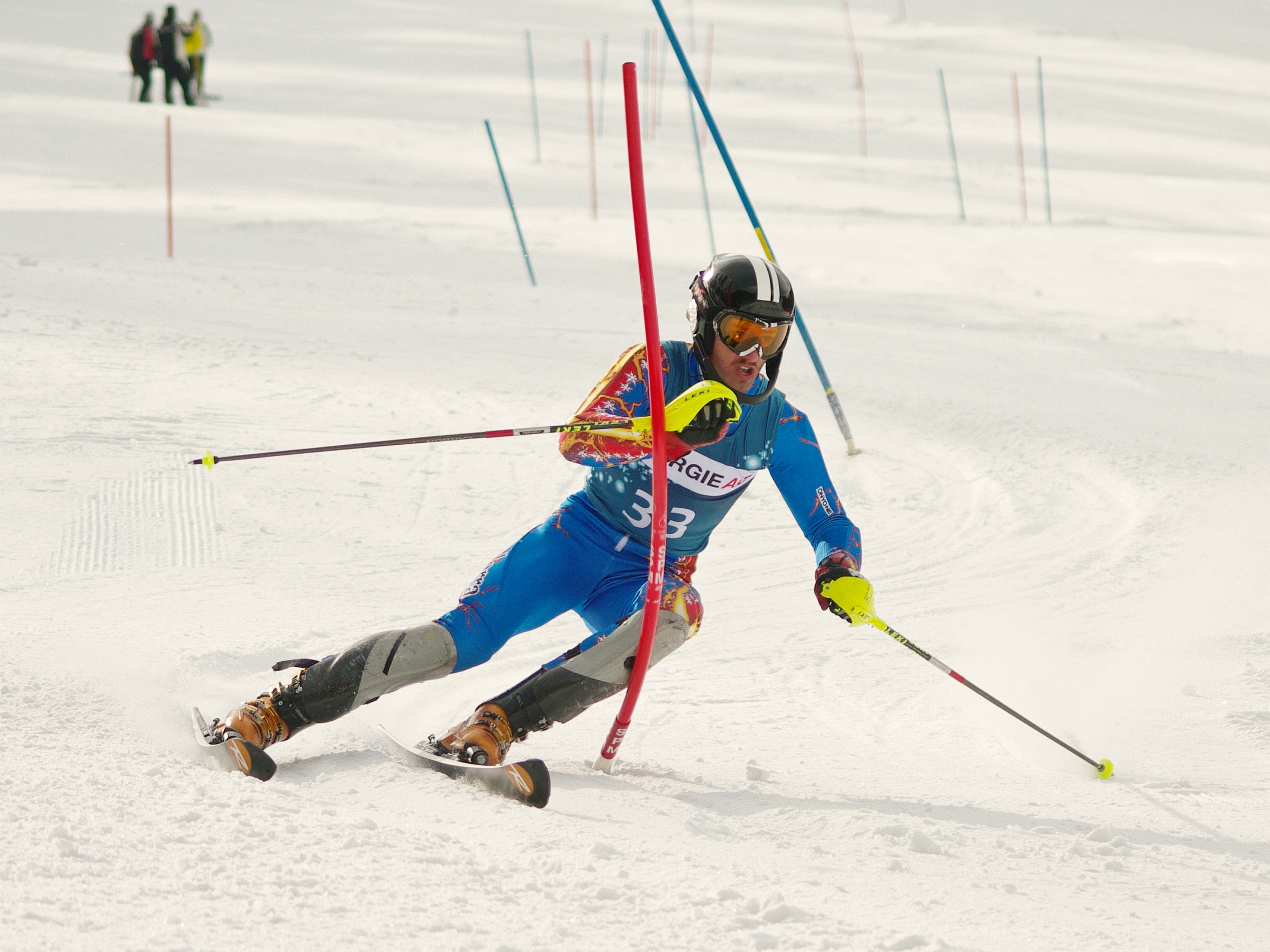 Andorran alpine skier Roger Vidosa in the first run of the FIS-Slalom in Hinterstoder, Austria, on 10 March 2010.